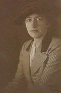 Minnie Louise Moore (1882-1957), self-portrait